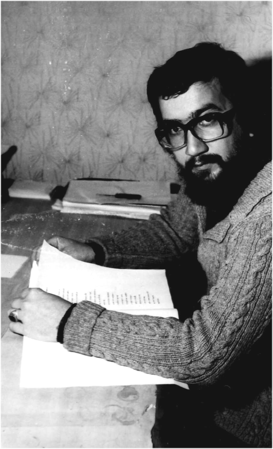 Péter Egyed (1954-2018) a Hungarian poet, writer, philosopher and critic in Romania